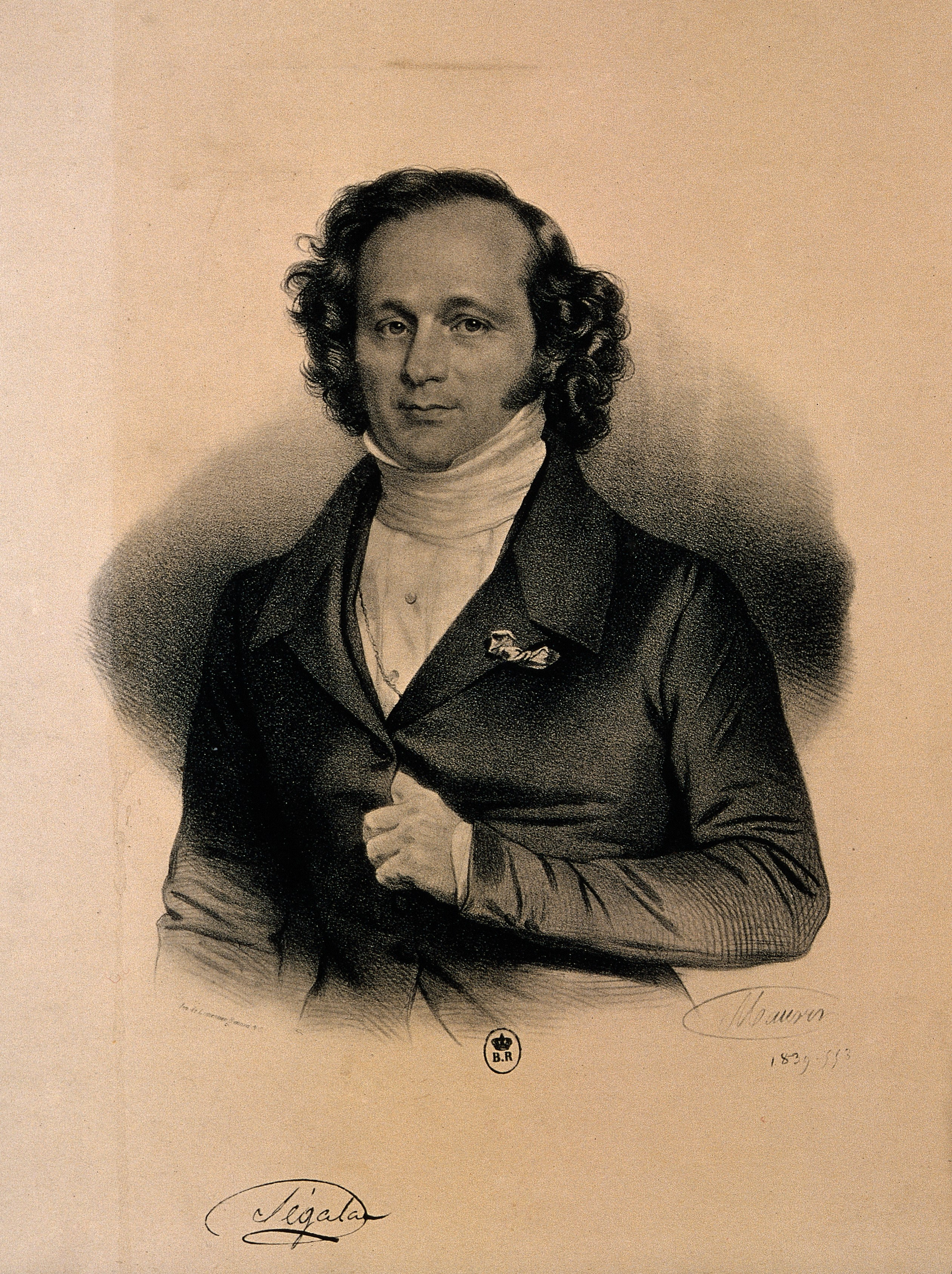 Pierre Salomon Segalas. Reproduction of lithograph by Maurin, 1839. Iconographic Collections Keywords: portrait prints; Pierre Salomon Segalas